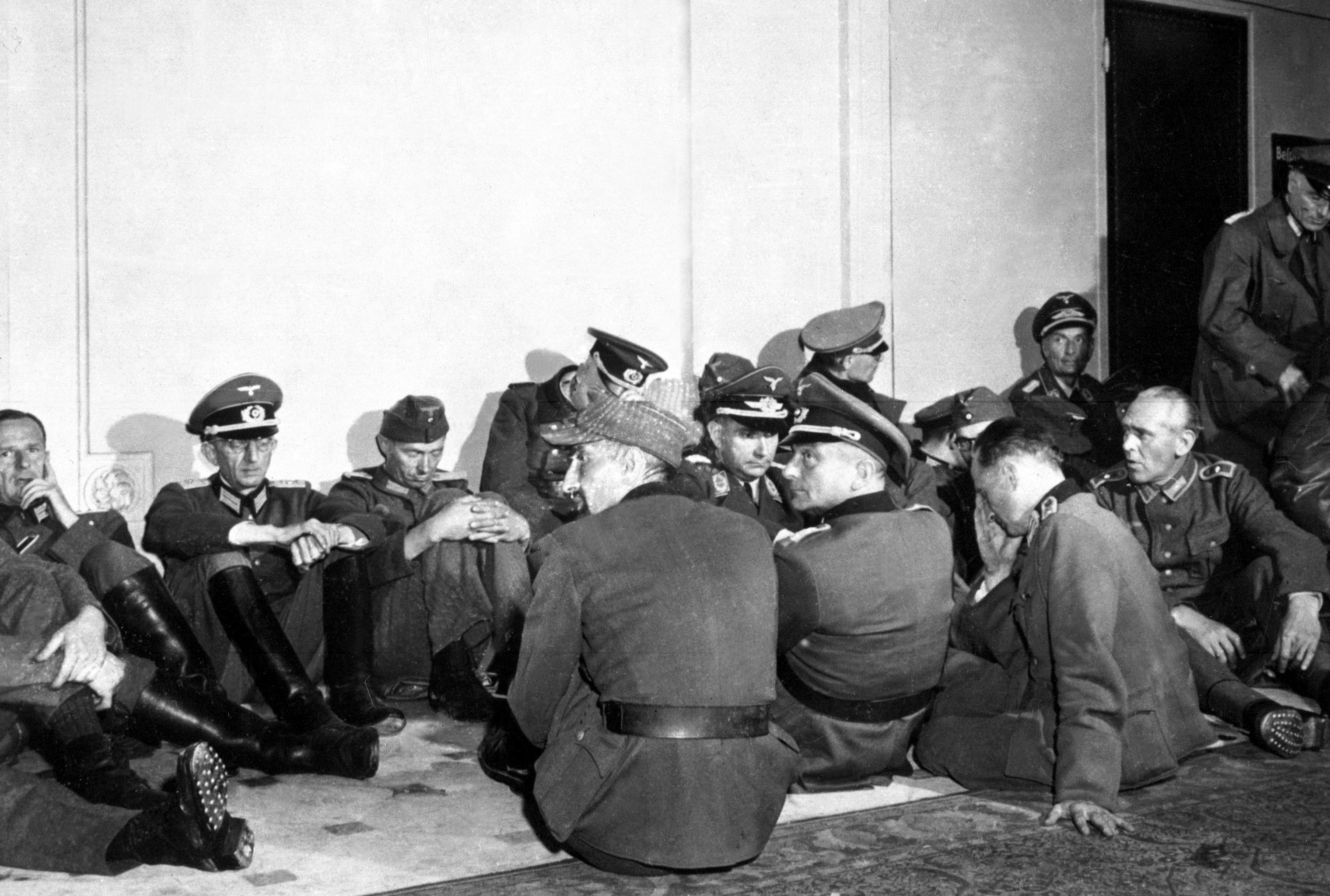 High ranking German officers seized by Free French troops which liberated their country's capital are lodged in the Hôtel Majestic, headquarters for the Wehrmacht in the days of the Nazi occupation, Paris, France. NARA FILE #: 111-SC-193010 WAR & CONFLICT BOOK #: 1293. ID: HD-SN-99-02952